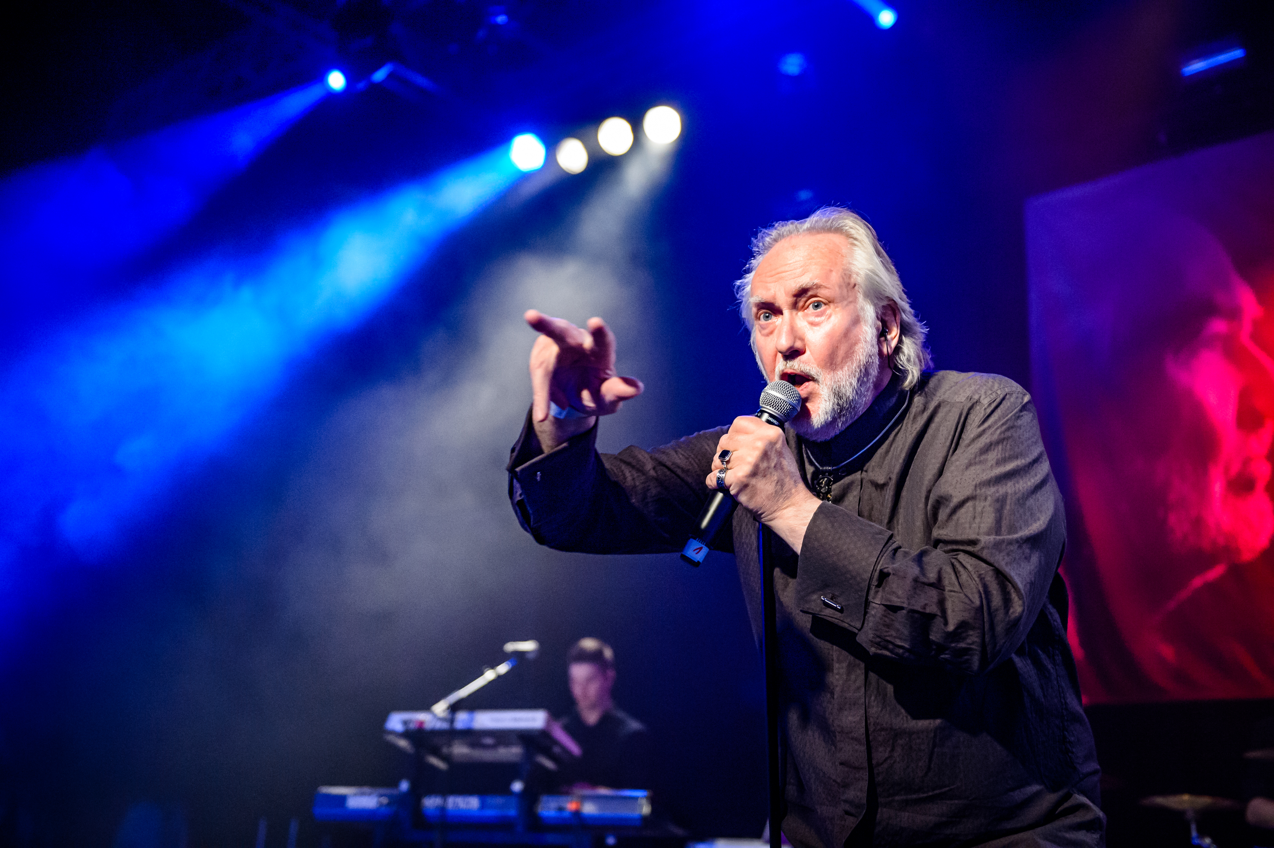 Joachim Witt; Amphi festival 2016